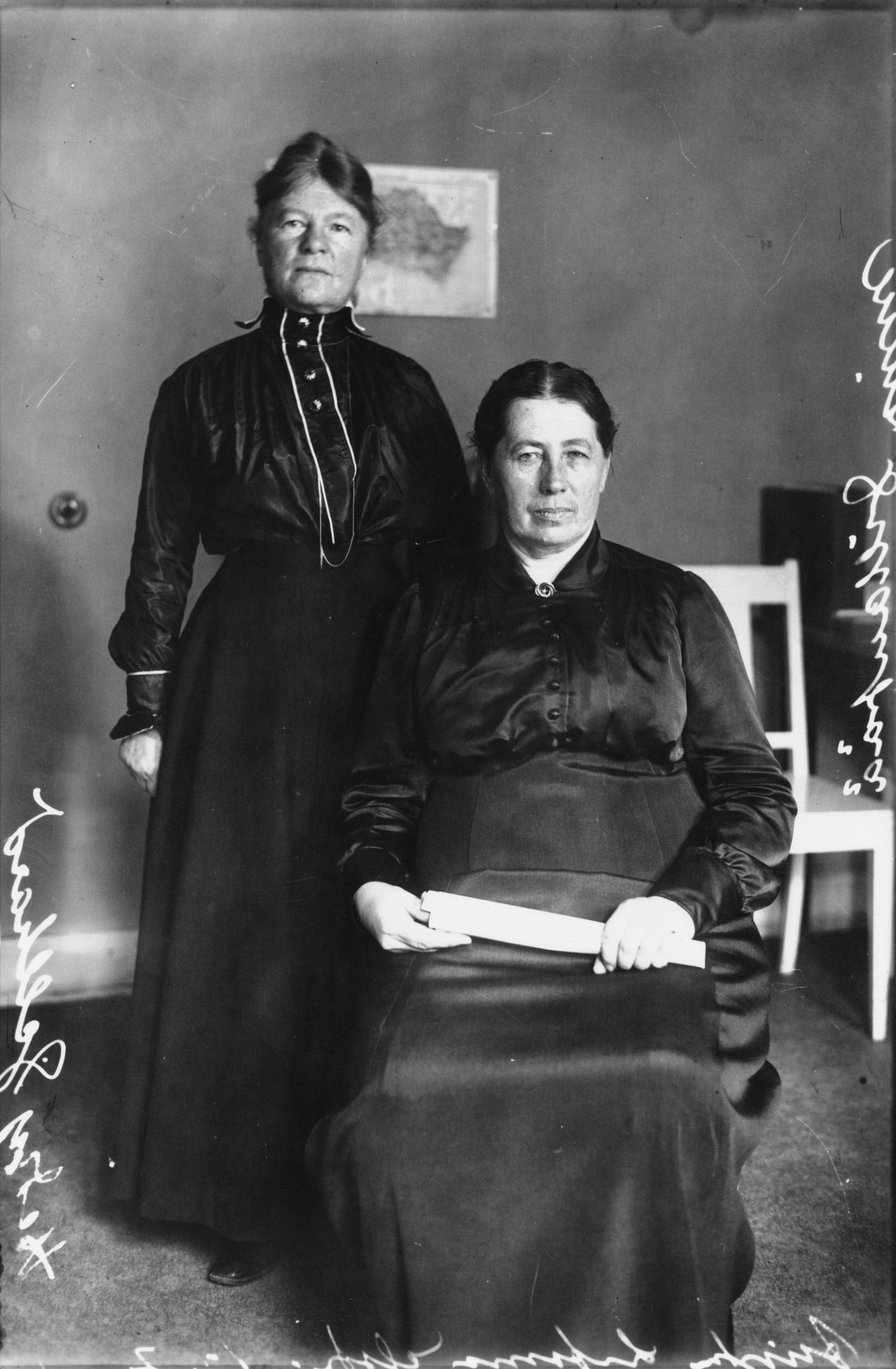 Photograph of the Finnish members of parliament Hedvig Gebhard (1867–1961) and Miina Sillanpää (1866–1952).